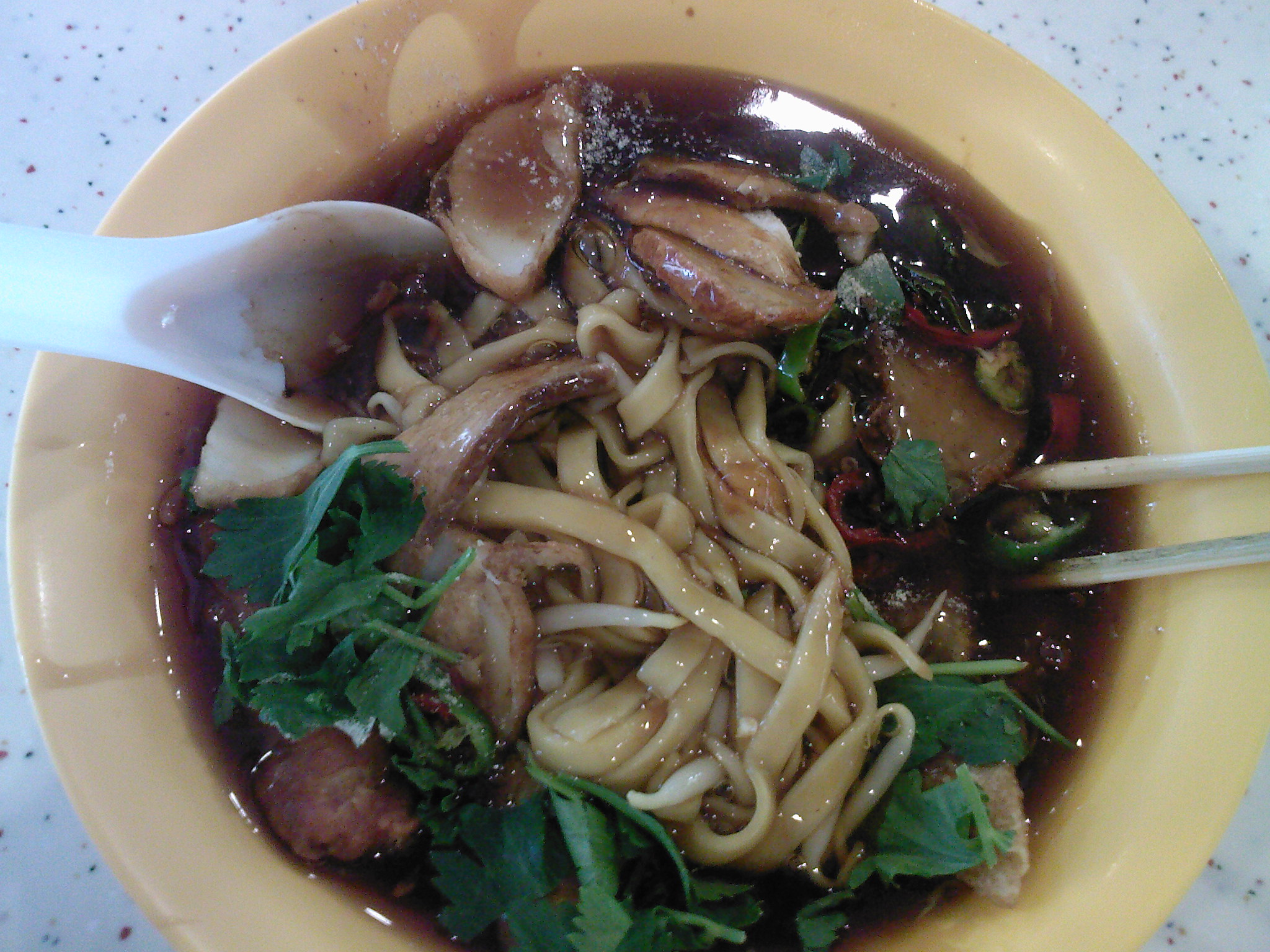 Lor Mee.